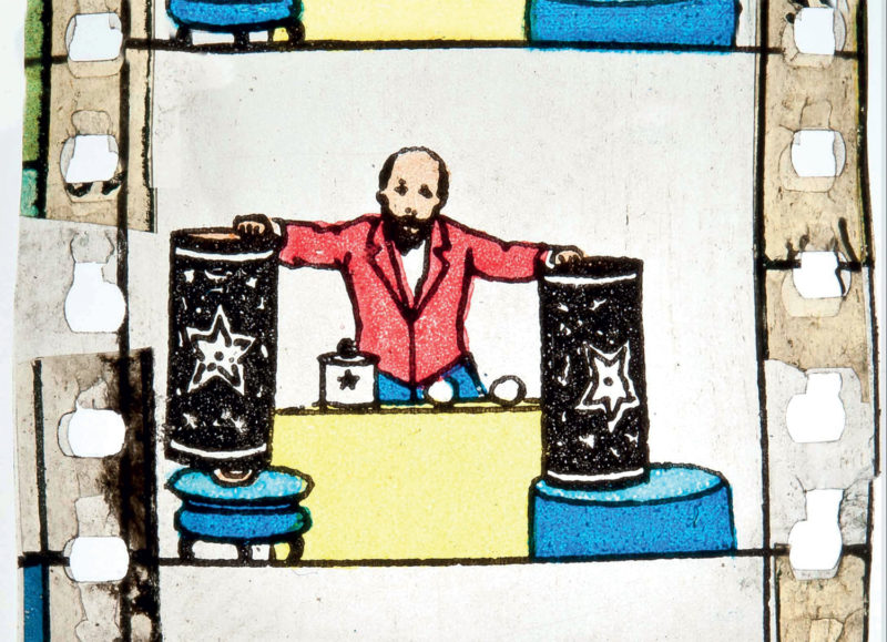 Rotoscoped version of Georges Méliès's 1896 film Séance de prestidigitation (Conjuring), identified as such in July 2015 (see Laurent Mannoni, "Film lithographique da Une séance de prestidigitation di Georges Méliès," Il Cinema Ritrovato, Cineteca di Bologna)